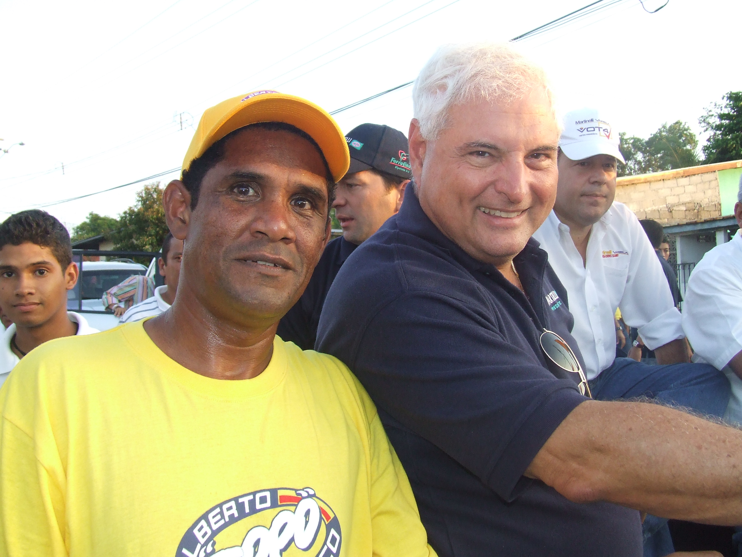 Ricardo Martinelli On Tour on La Chorrera